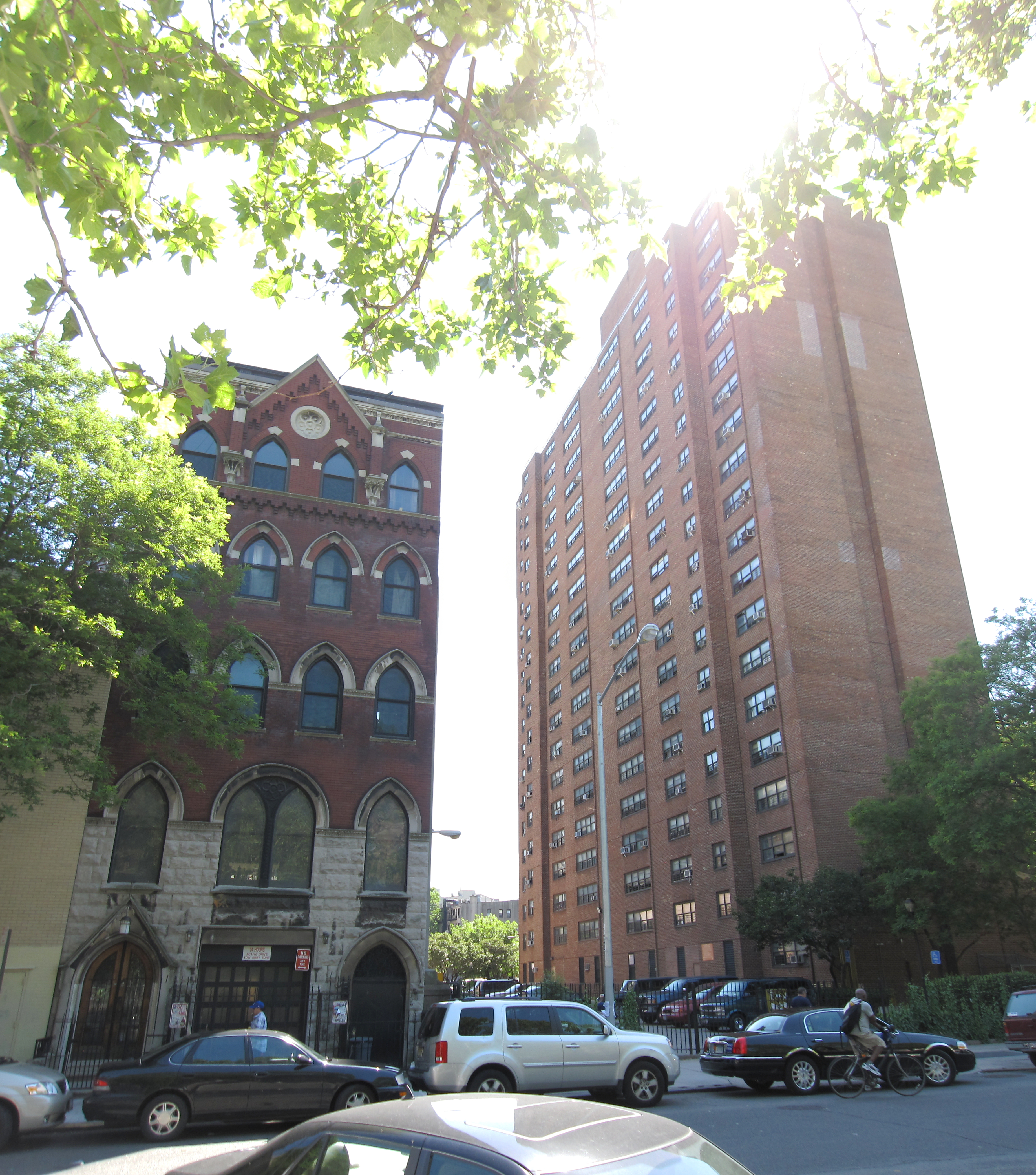 Combined with Hugin Software of images: File:126 East 2nd Street 9175.JPG and File:126 East 2nd Street 9176.JPG.